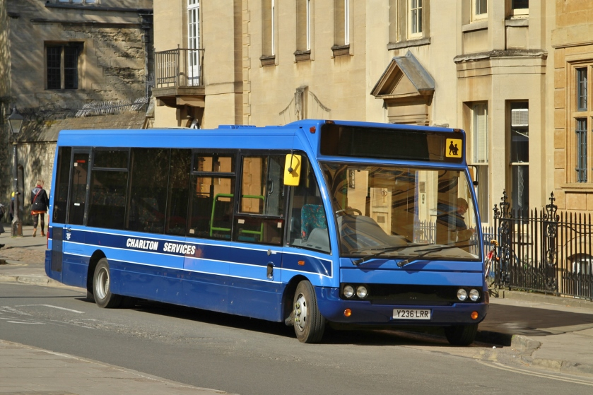 A Charlton-on-Otmoor services bus on route 94 outside Balliol College, Oxford, at the junction of St Giels' Street and Magdalen Street. It is an Optare Solo, registration mark Y236 LRR.